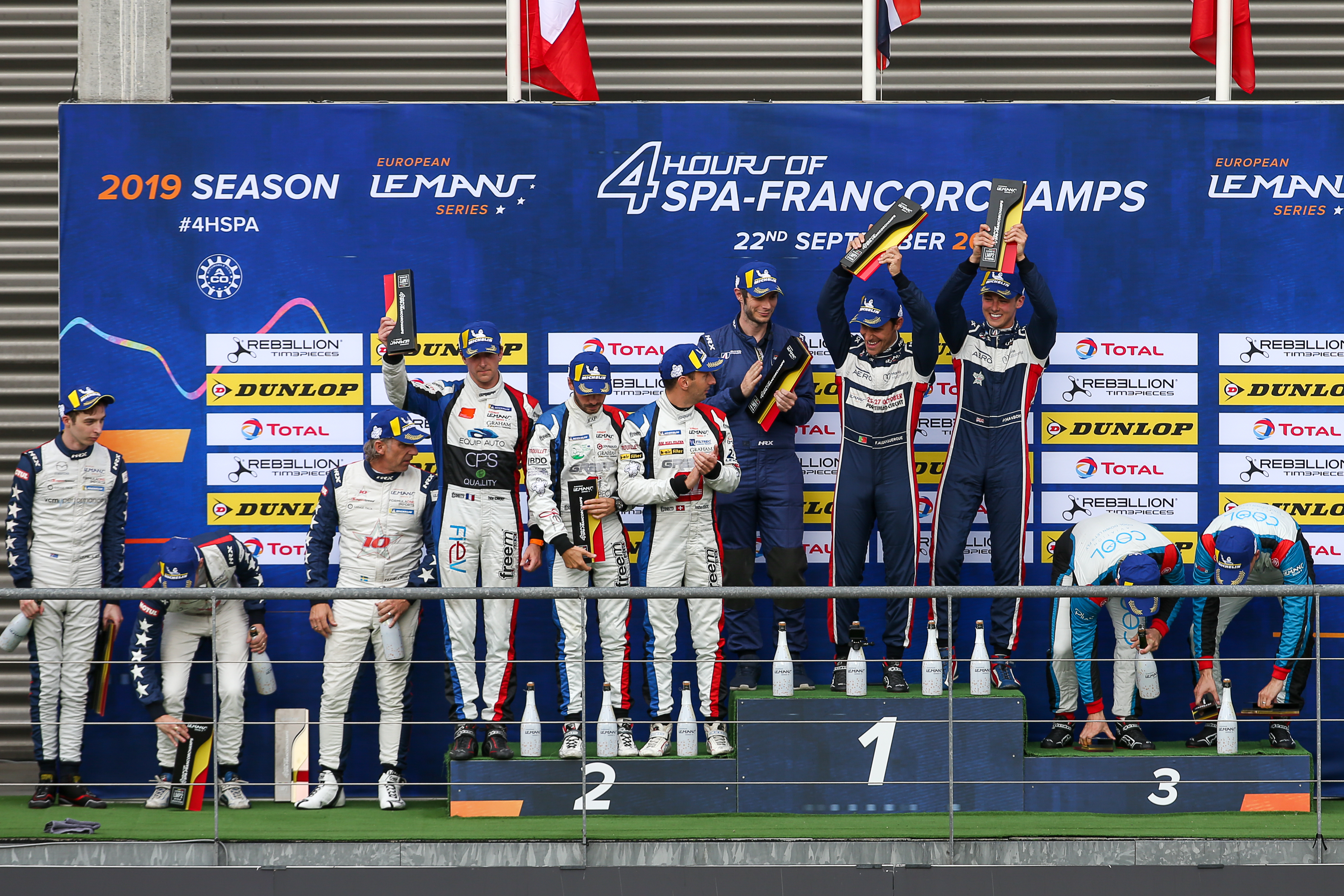 2019 4 Hours of Spa podium